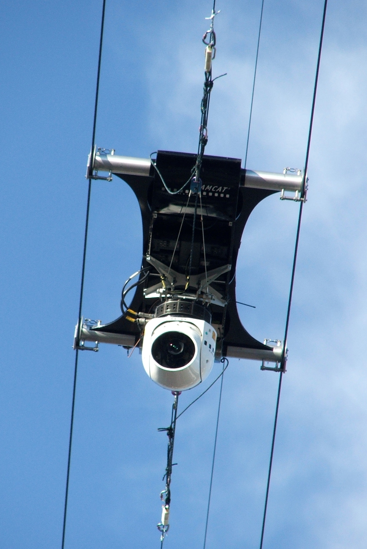 Cable car-style remote-controlled video camera (CAMCAT) as used at Pope Benedict XVI's outdoor mass in Munich in September 2006.